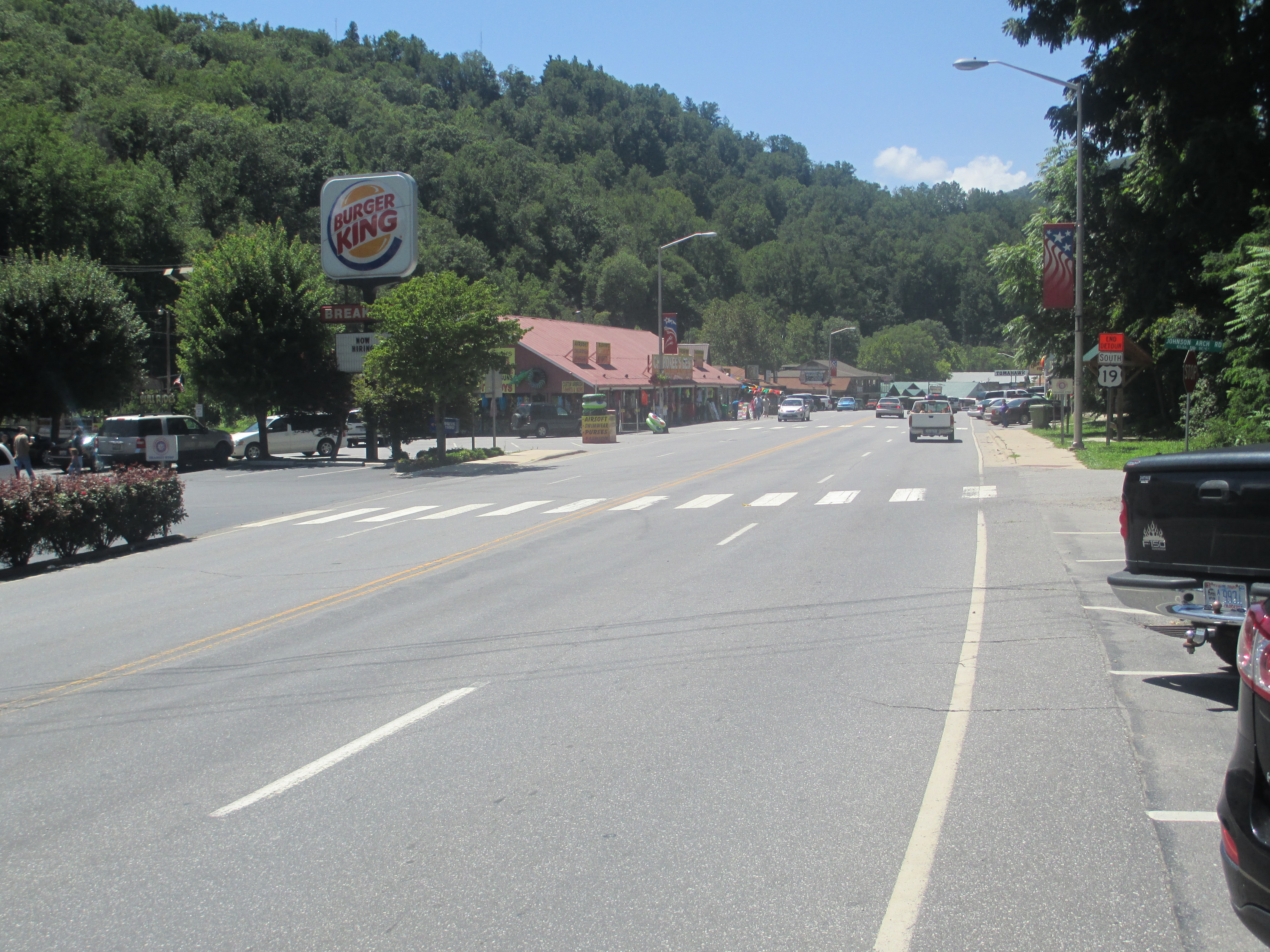 I took photo of Highway 19 South in Cherokee, NC, with Canon camera.